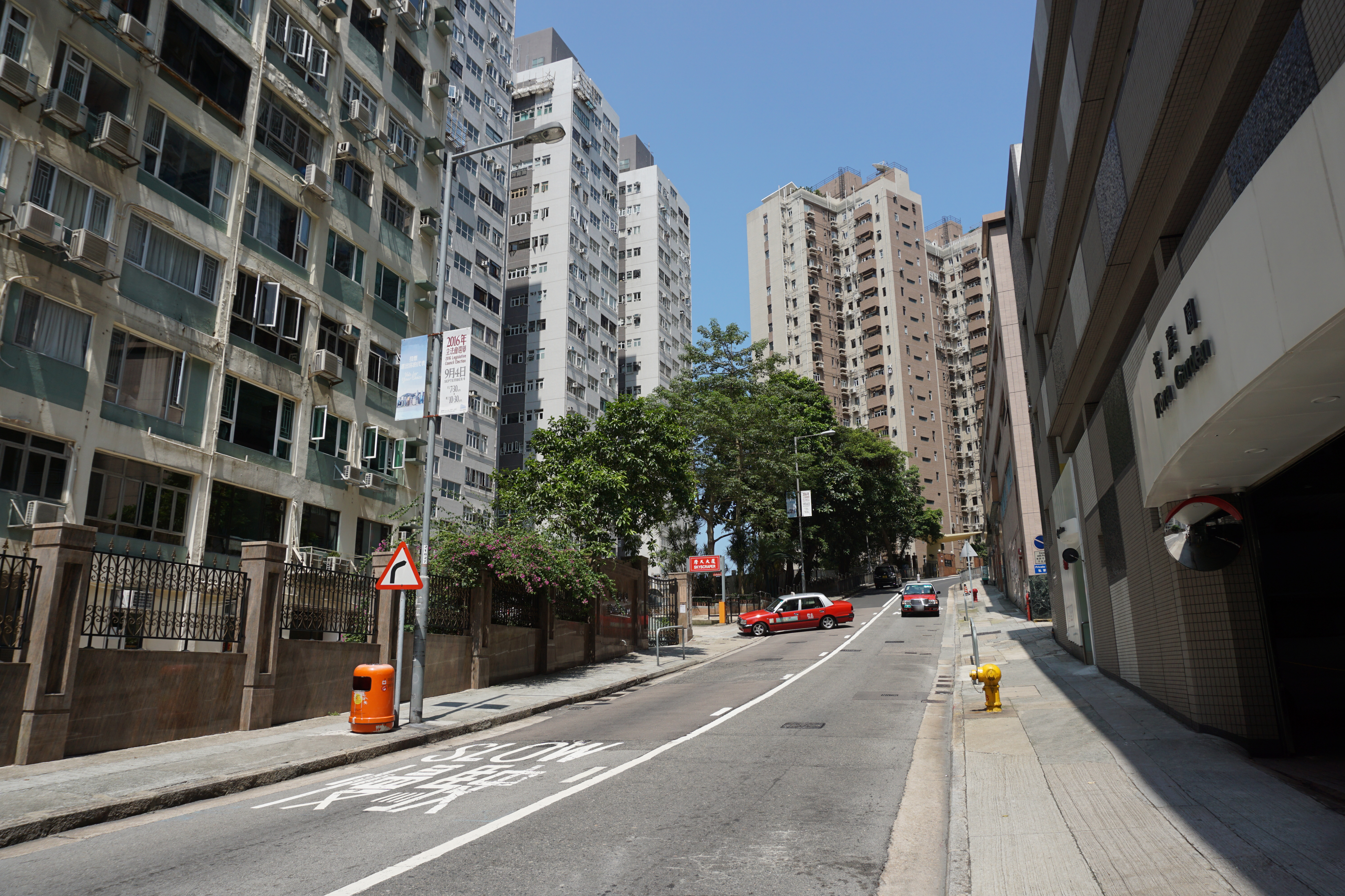 Cloud View Road in Braemar Hill, Hong Kong.